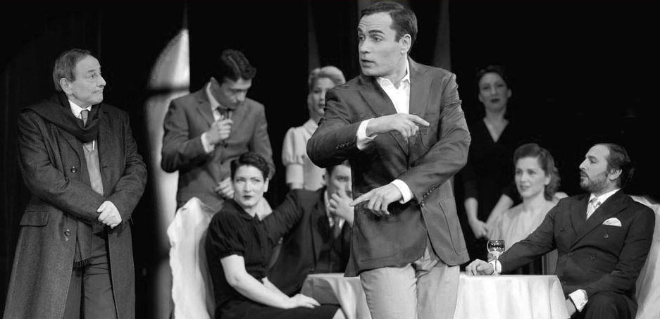 Male Tajne performance